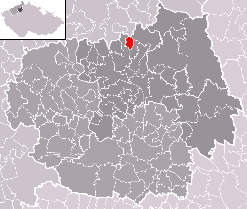 Location of Staňkovice municipality within Litoměřice District and administrative area of Litoměřice as a Municipality with Extended Competence.